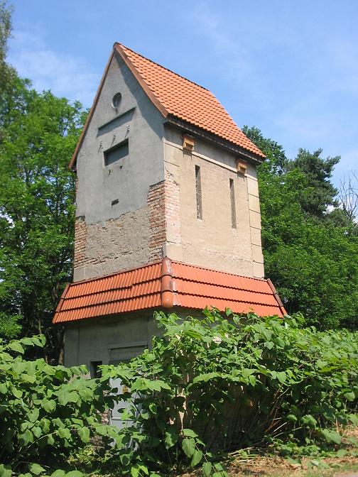 Former transformer building in Preußnitz, used for birds’s nest. The village Preußnitz is a part of the village Kuhlowitz, an incorporated part of the town Belzig in Brandenburg, Germany.